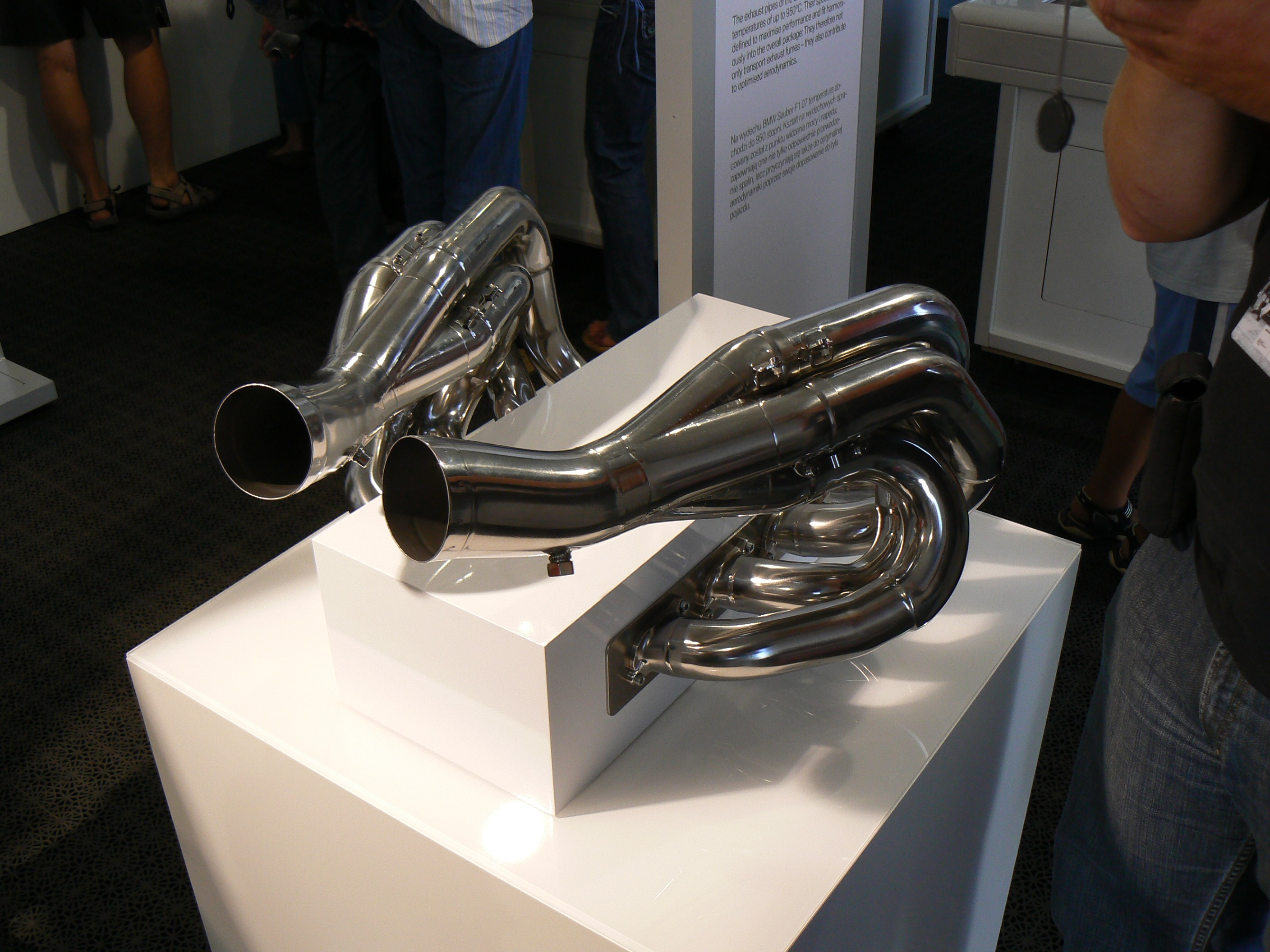 BMW V8 exhaust system, probably from F1.06. Photographed during BMW Sauber F1 Team Pit Lane Park in Warsaw, Poland.